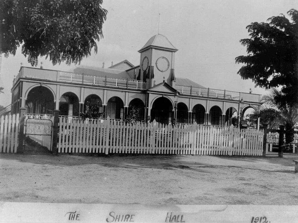 Shire Hall Barcaldine Queensland 1912